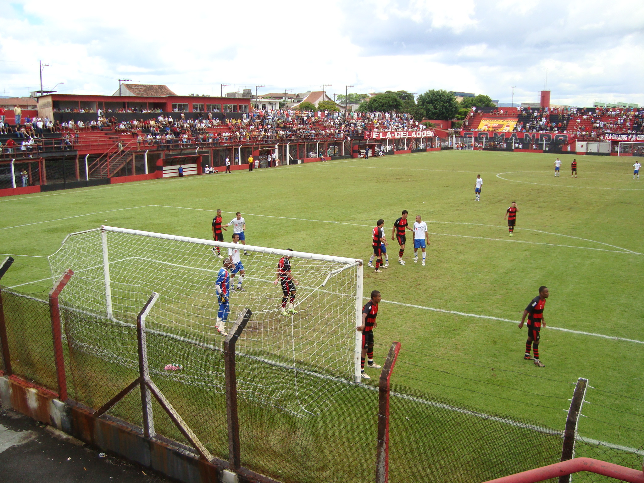 Antônio Soares de Oliveira stadium during a match between AA Flamengo and São José EC. The game ended 3x2 for the away team.